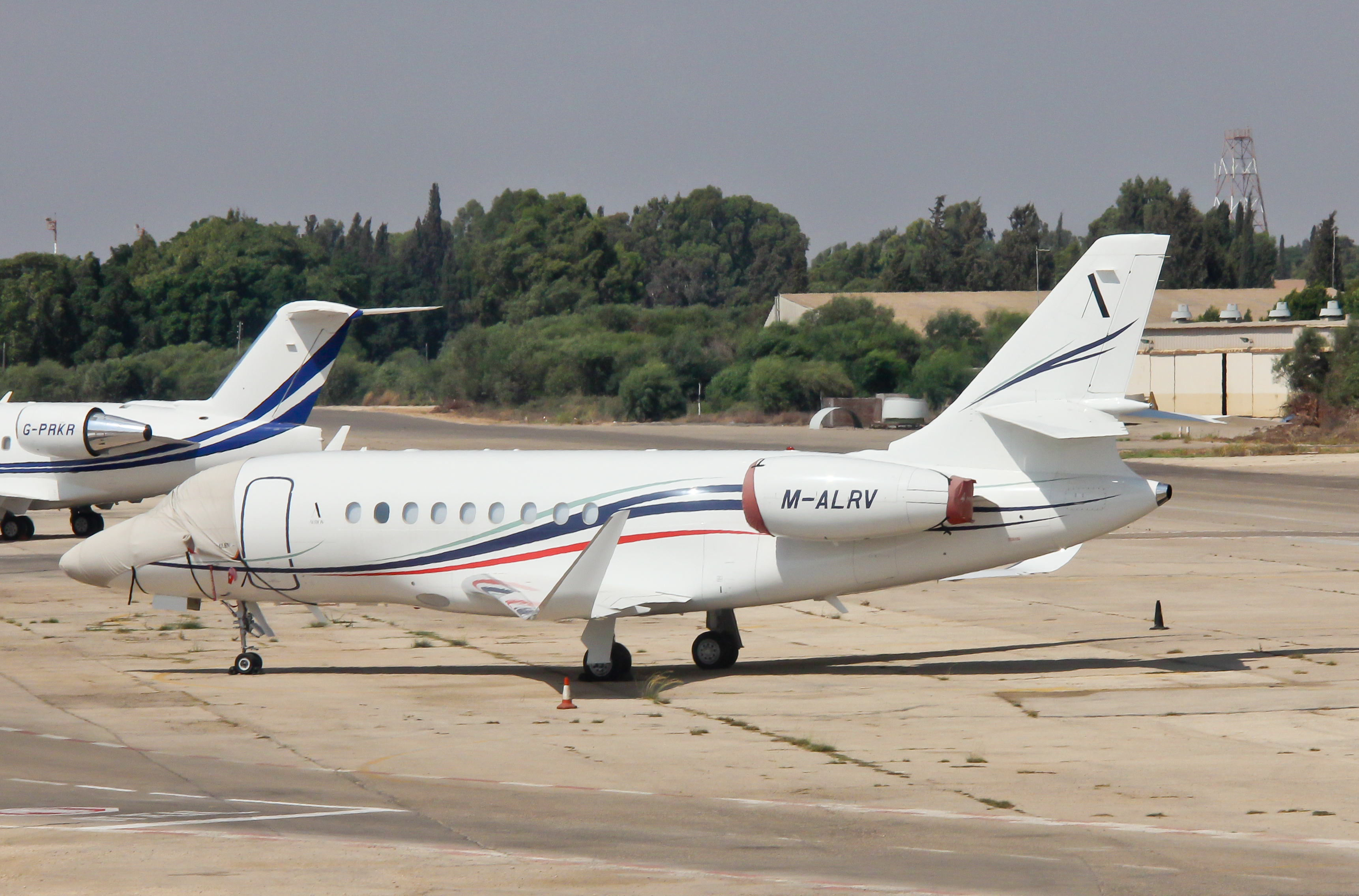 Dassault Falcon 2000LX - Airport Tel Aviv Ben Gurion - Registration: M-ALRV